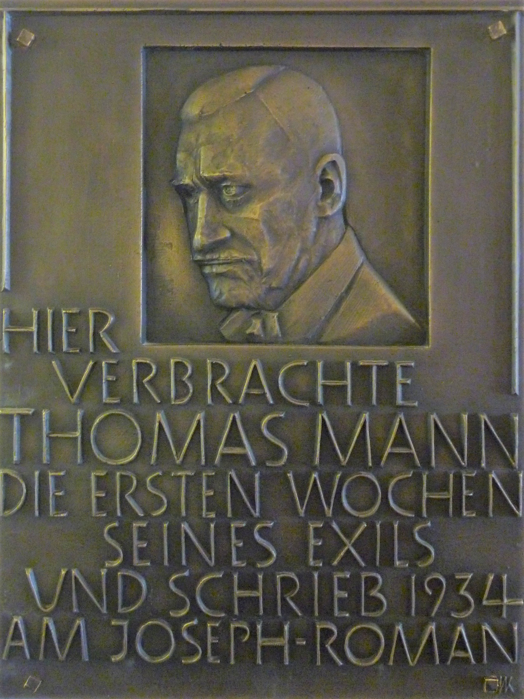 bronze plaque of writer Thomas Mann at Waldhotel National Arosa